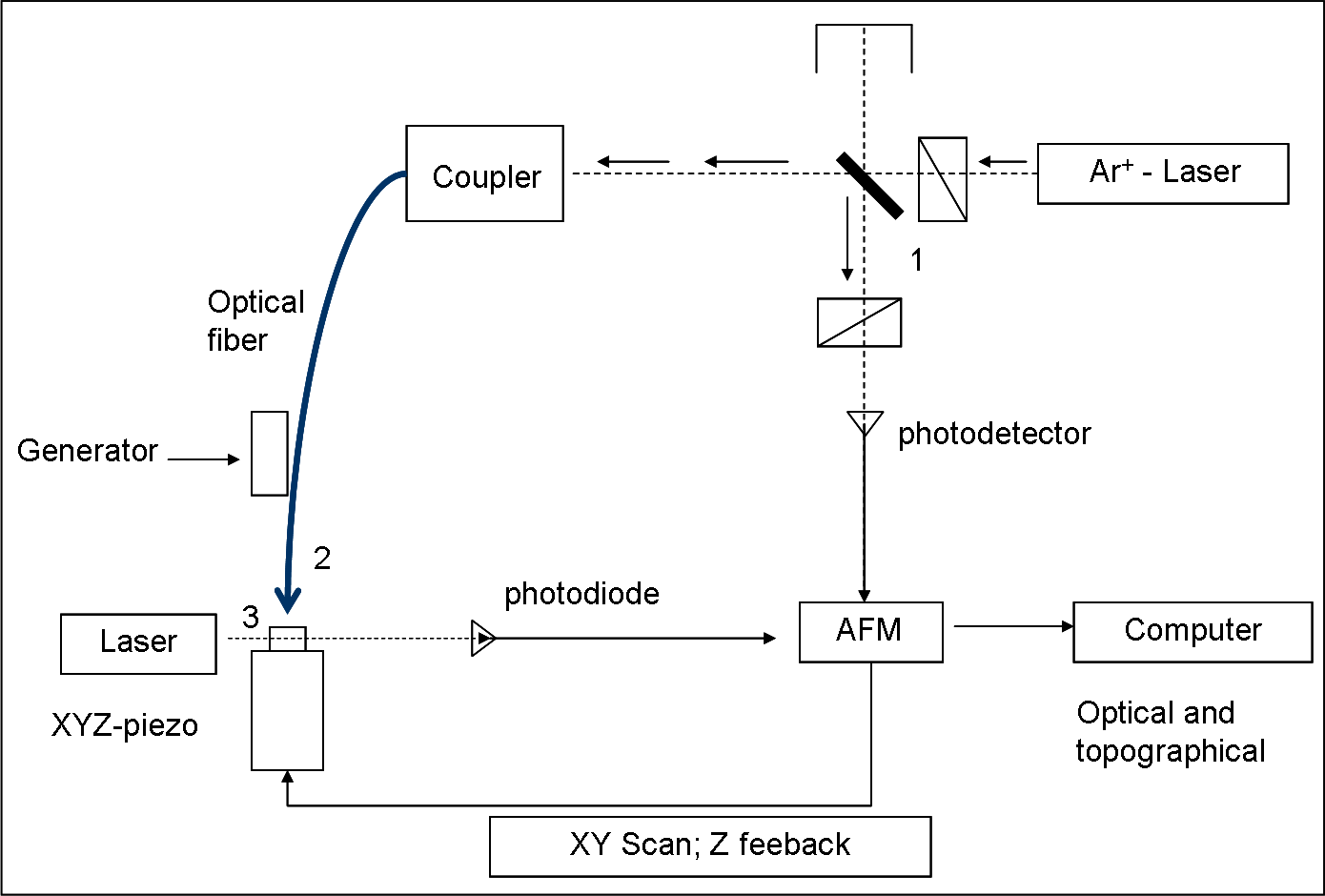 10. G. Kaupp. Atomic Force Microscopy, Scanning Nearfield Optical Microscopy and Nanoscratching: Application to Rough and Natural Surfaces. Heidelberg: Springer, 2006.